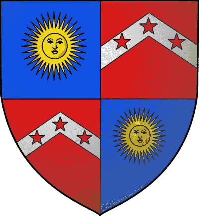 Kerr, Marquis of Lothian CoA